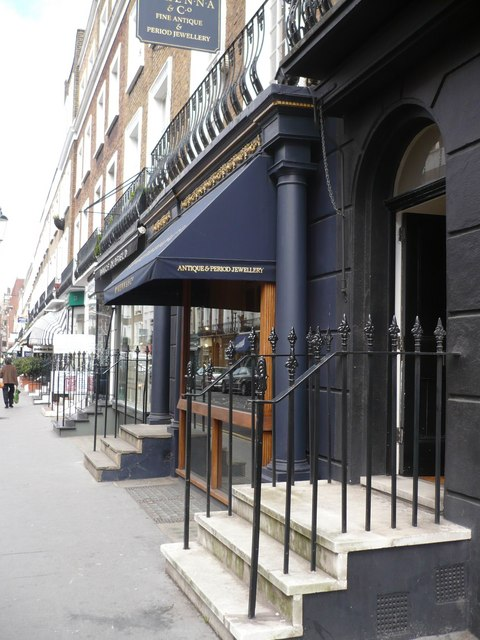 Beauchamp Place, looking towards Brompton Road